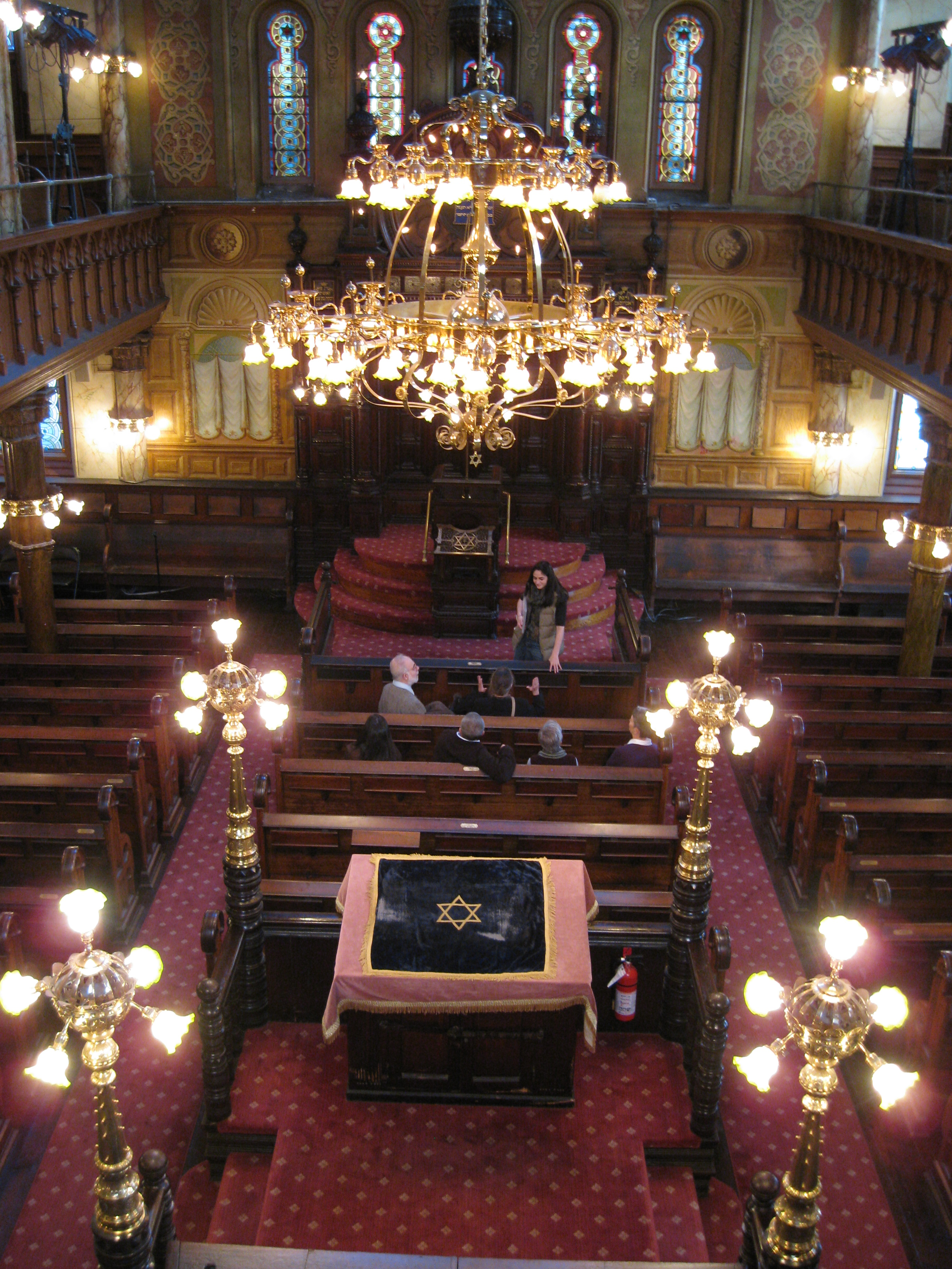 Eldridge Synagogue Sanctuary